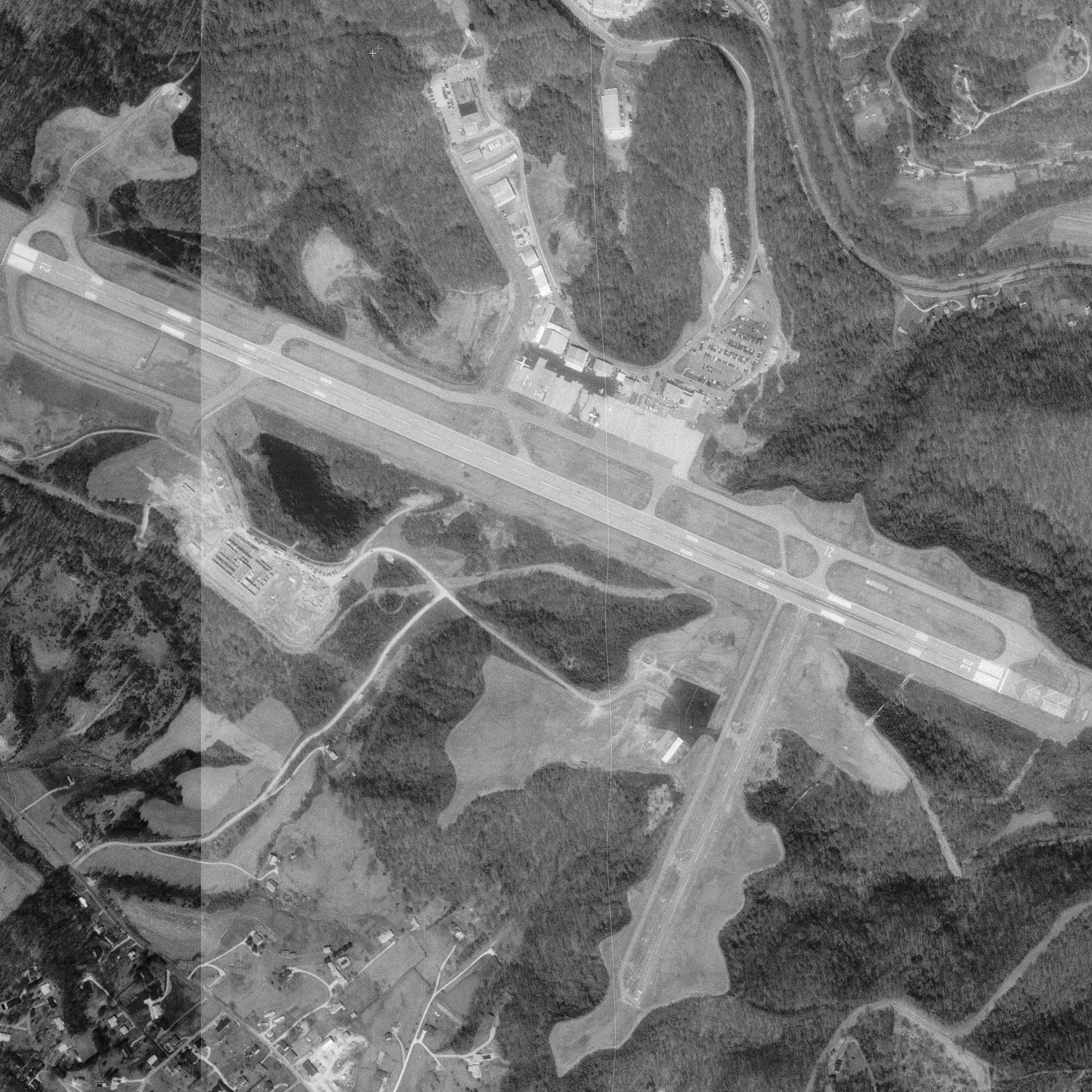 Aerial photo of Tri-State Airport in West Virginia, United States.